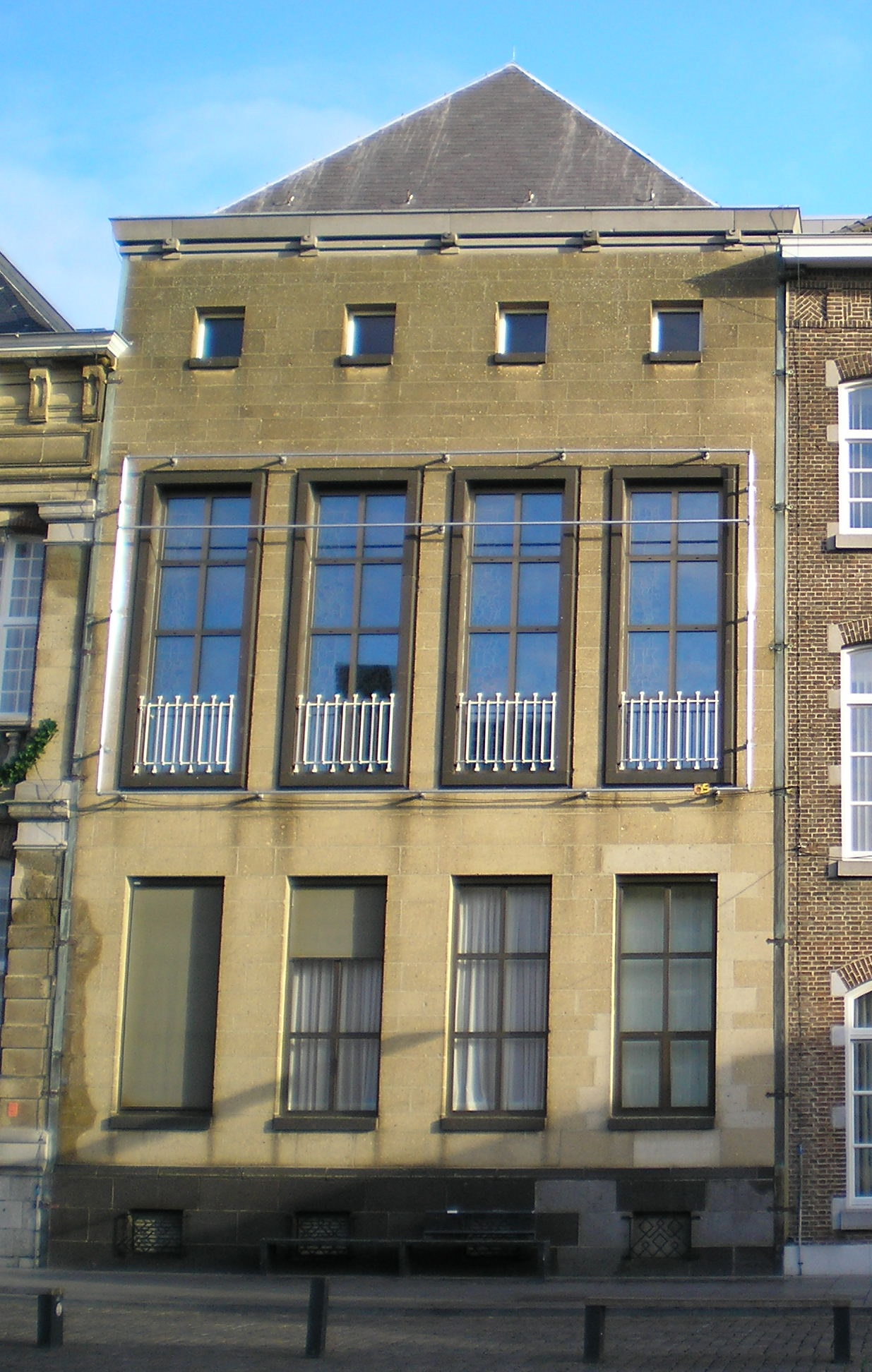 Markt in Roermond in the Netherlands